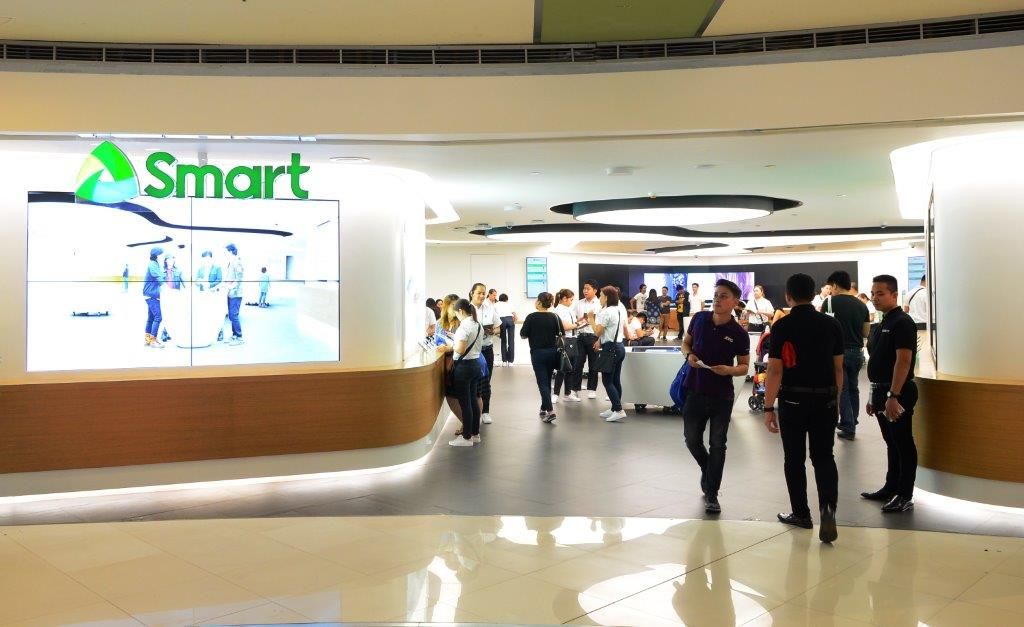 Facade of the Smart Flagship Store in SM Megamall, Mandaluyong City, Philippines